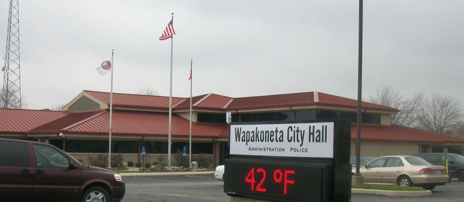 Wapakoneta City Hall